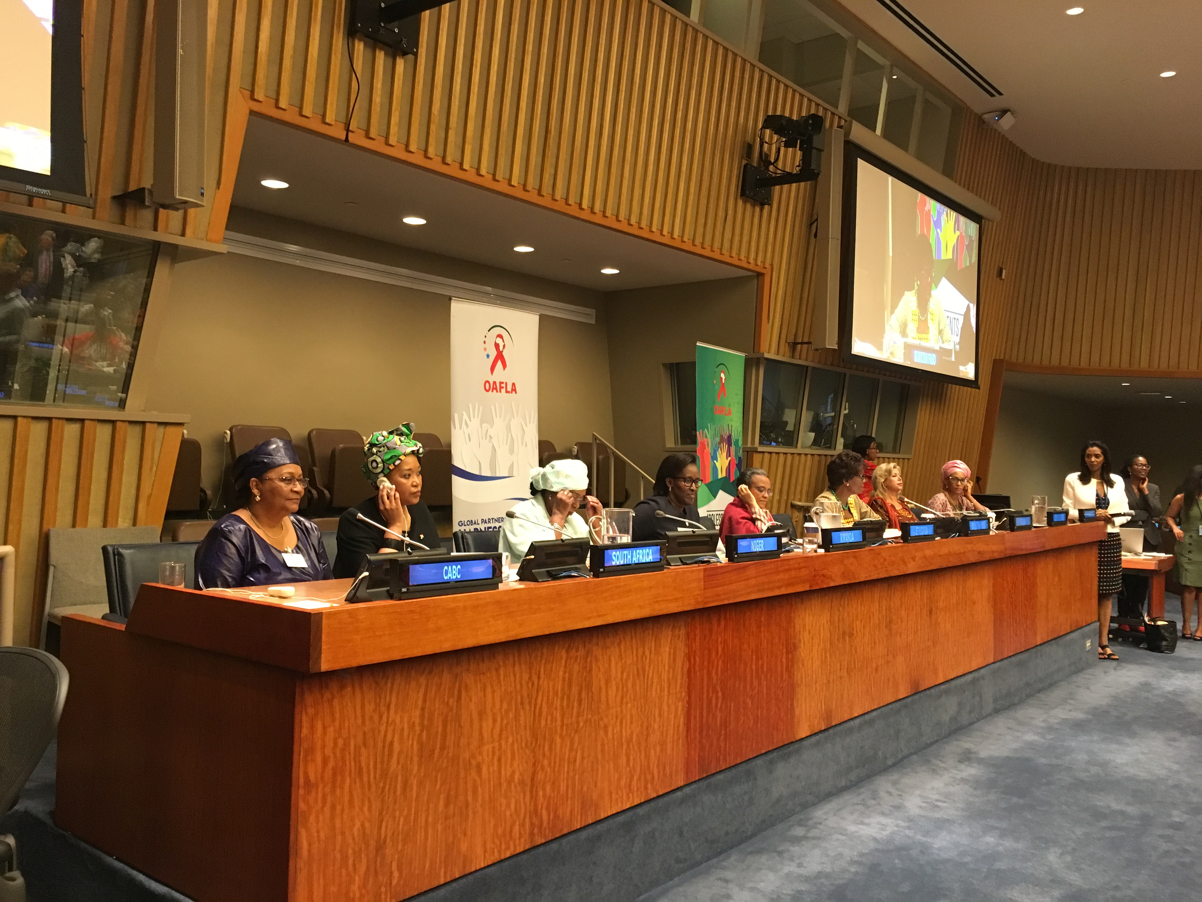 First Ladies of South Africa, Niger, Rwanda, Ethiopia, Ivory Coast, and Malawi joined by representation from the China-Africa Business Council at the OAFLA High Level Event during the 72nd United Nations General Assembly.